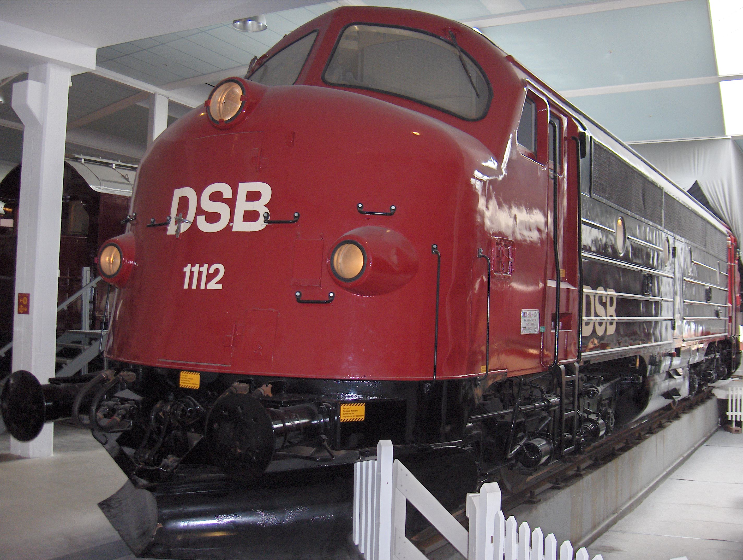 DSB NOHAB locomotive in preservation at the Danish Railway Museum, Odense, Denmark